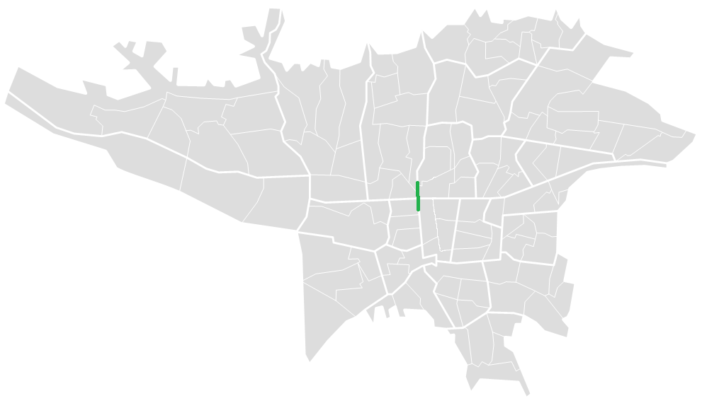 Tohid tunel map in Tehran